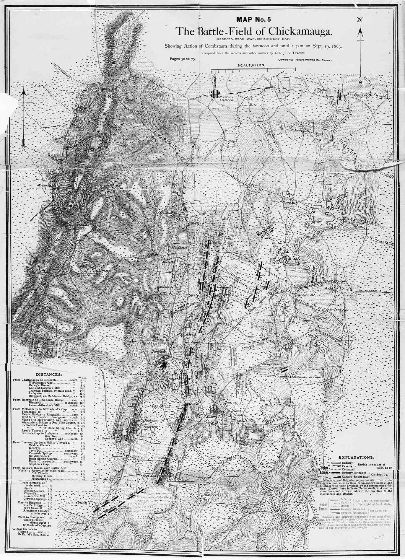 Engagements up to 1 p.m. on 1863-09-19 at the battlefield at Chickamauga based on notes by General John B. Turchin (Ivan Turchaninov). War department map republished by Fergus, 1863